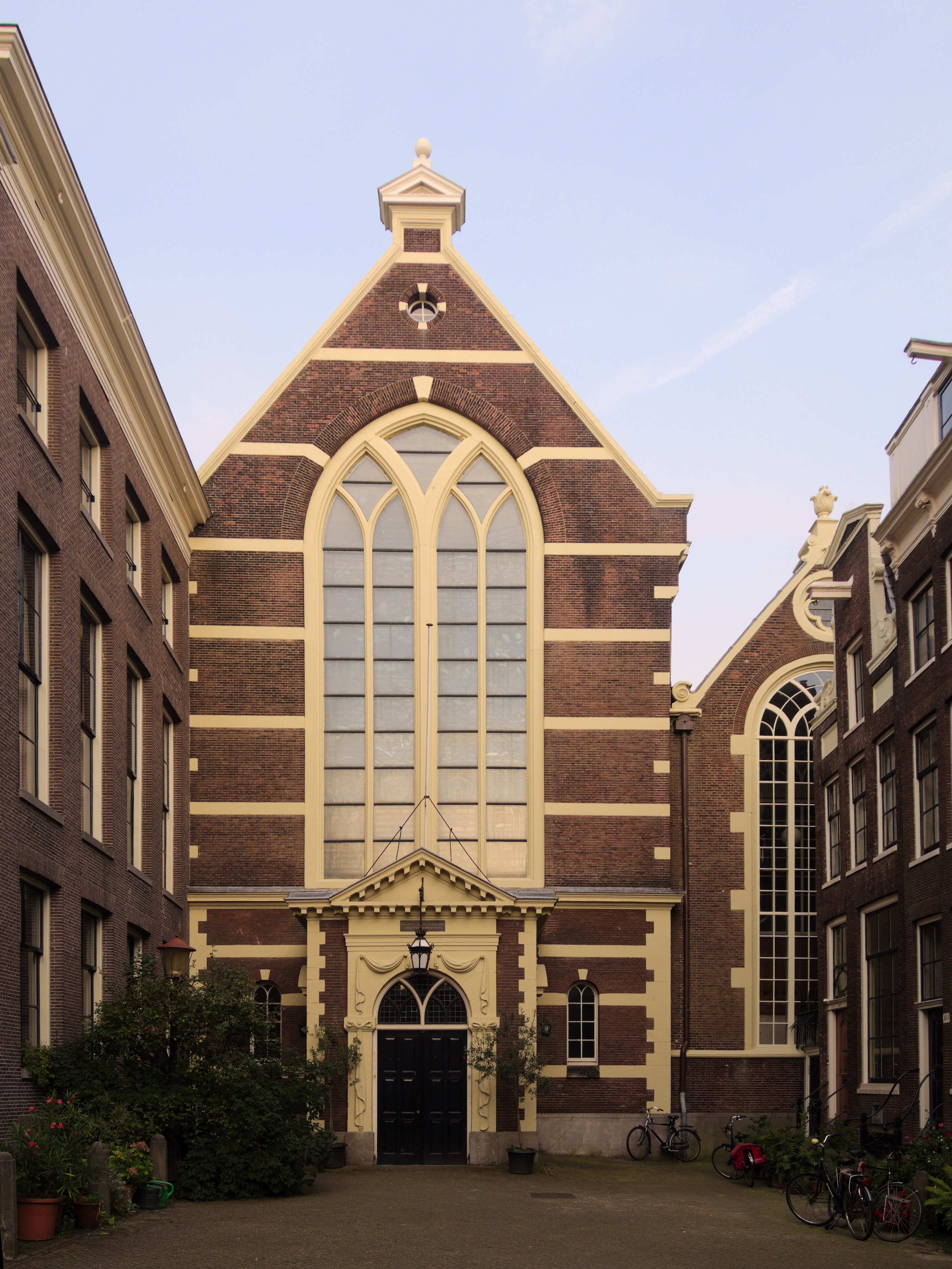 The Waloon Church in Amsterdam